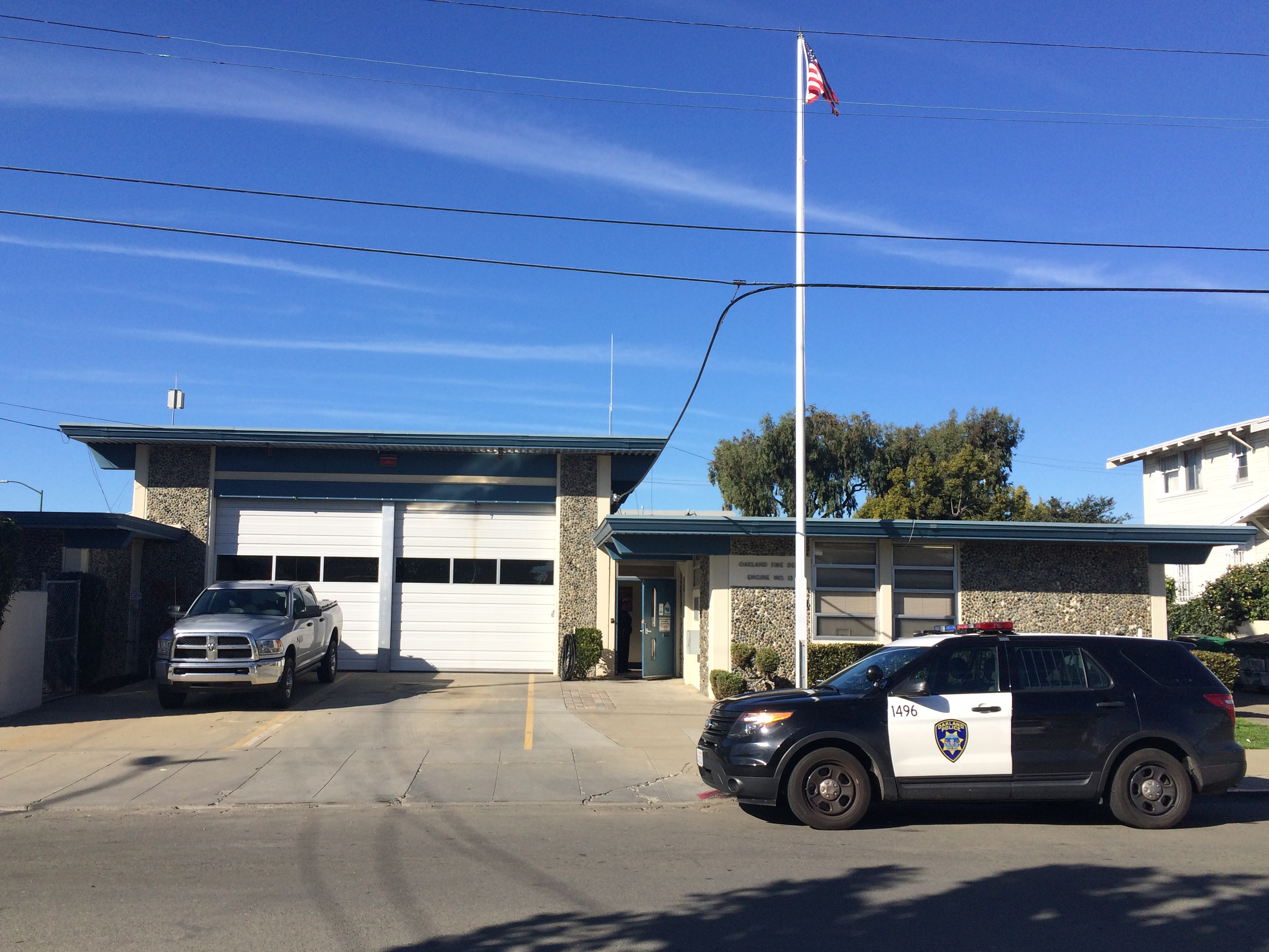 Front face of Oakland Fire Station 13